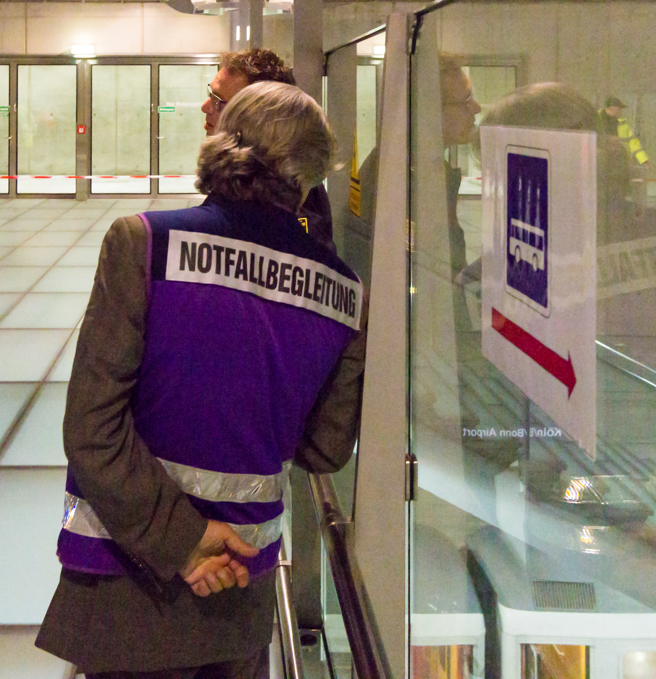 Arrival of refugees with a special train by Deutsche Bahn from the Austrian/German border at the station of Cologe/Bonn airport. In big tents on the ground the refugees can rest and eat, get new clothes and they can charge their smartphones. Medical assistance is available too. After ~ 2 hours the refugess will be transported by busses to buildings of the country of North Rhine-Westphalia